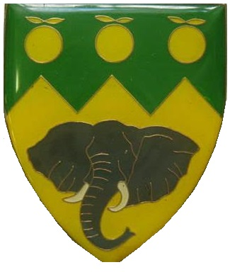 Commando Clan William shoulder flash